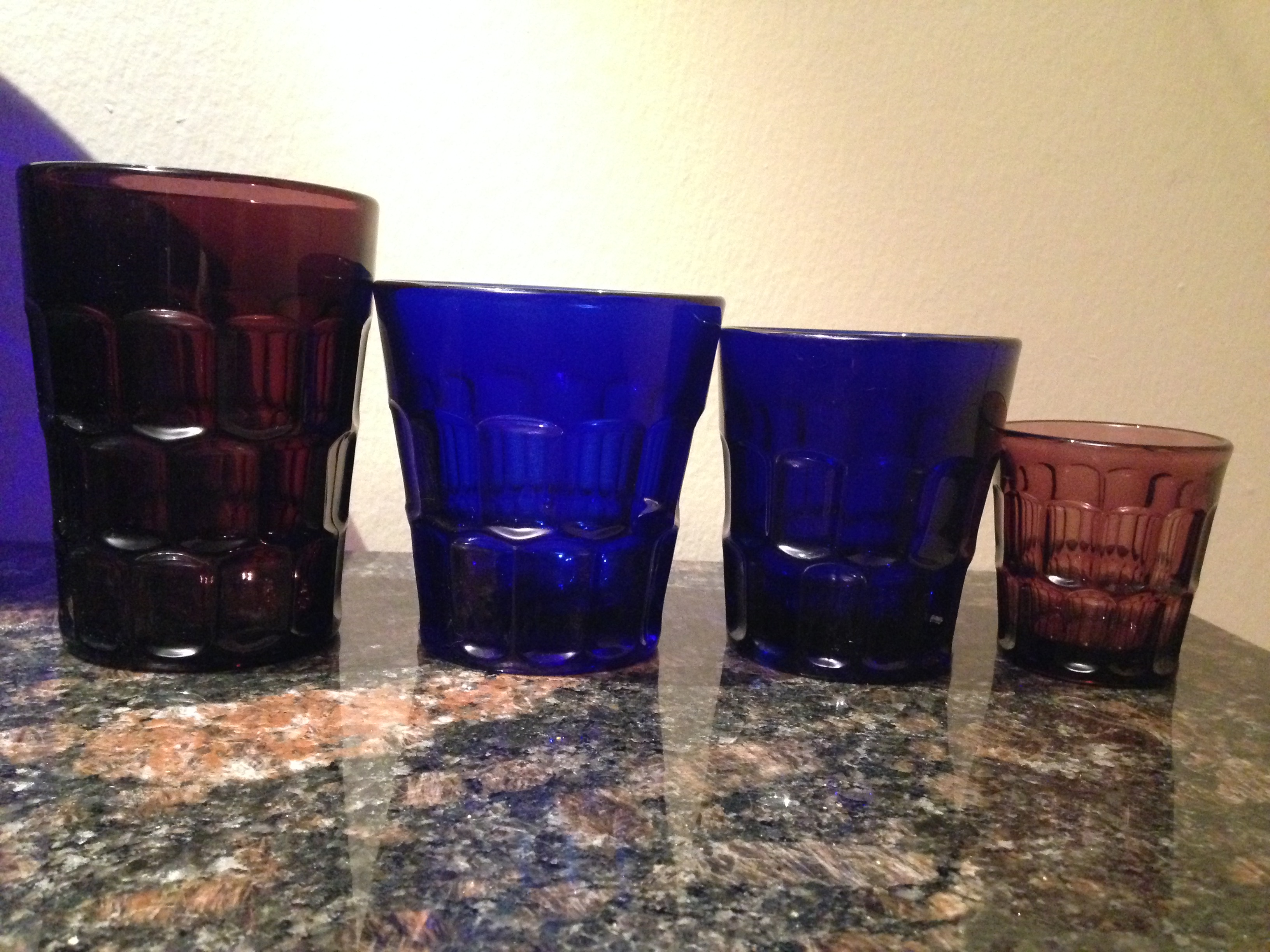 4 different sized tumblers from the New Martinsville Repeal pattern (AKA Hostmaster, Pattern 38). Tumbler sizes are 2oz, 4oz, 6oz, 8oz. Copyright status of Hostmaster Pattern is unknown. This pattern was made in the 1930's. The company no longer exists. The molds for this pattern no longer exist - they were destroyed in the 30's